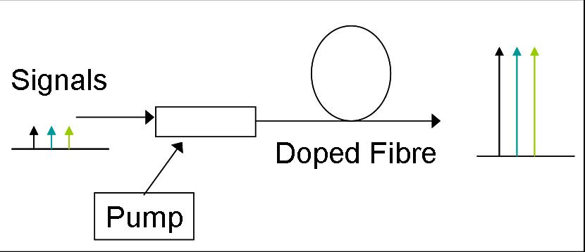 Scematic of simple EDFA